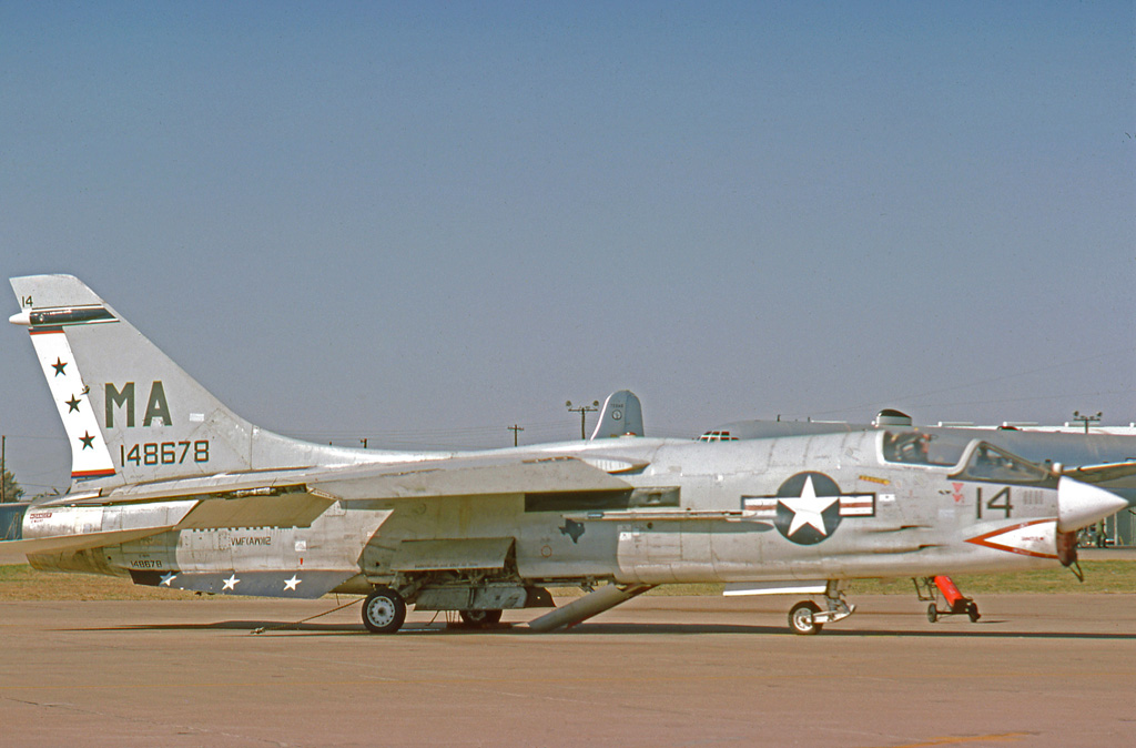 Vought F-8H Crusader II 148678 of VMF(AW)-112 at Dallas NAS in October 1975